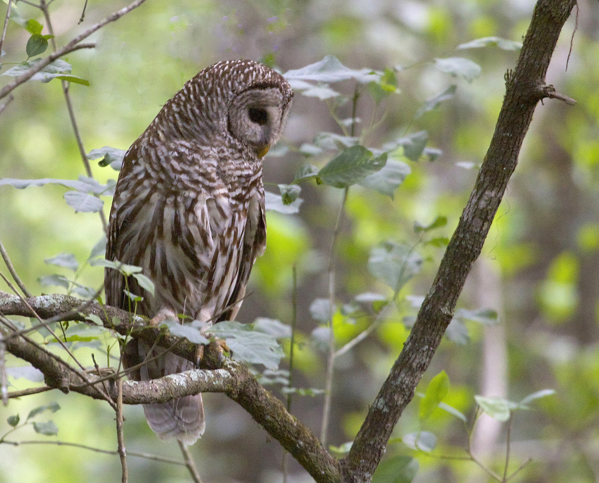 Corkscrew Swamp is an Audubon Sanctuary outside of Naples, Florida. An elevated boardwalk winds through a cypress swamp where your chance of seeing the owl are pretty good during nesting season. Really good looks...